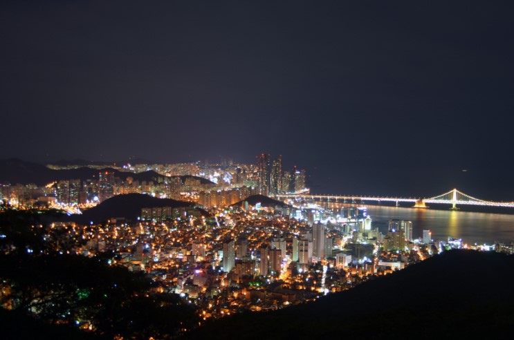 Night of Busan, South Korea. Photograph from Flickr; author Yonguk Kim; license of cc-by-2.0.